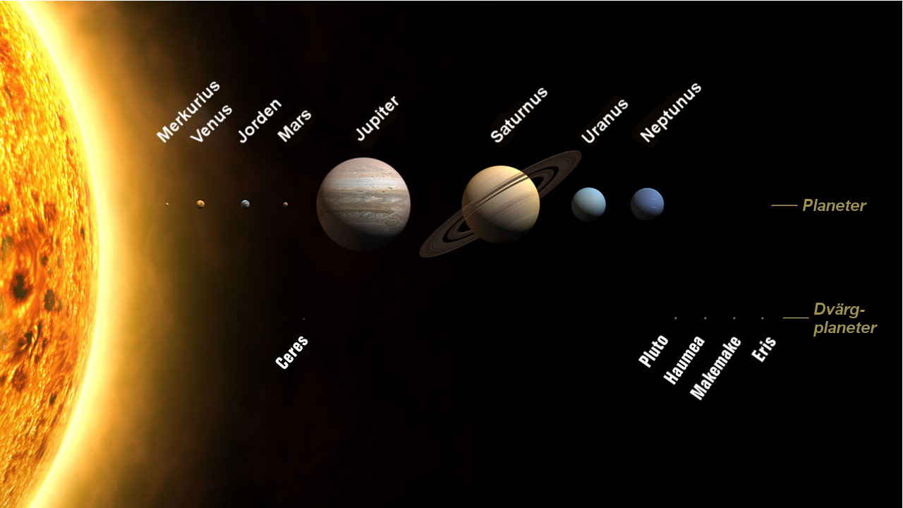 Planets of the solar system